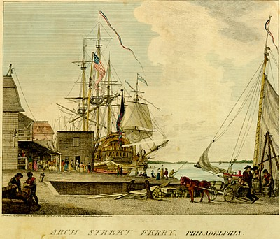 Arch Street Ferry in Philadelphia.